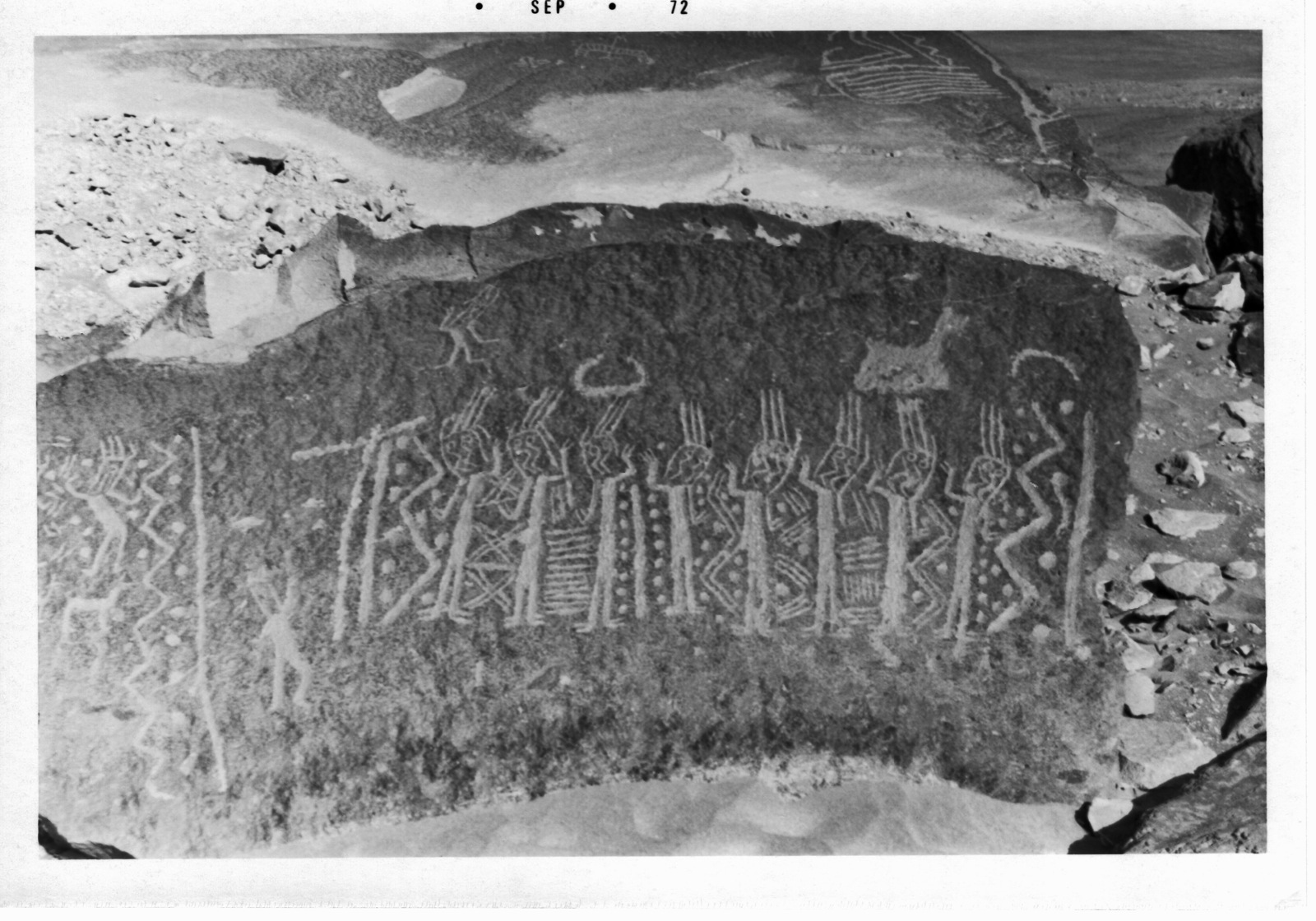 These petroglyphs are at the site of Toro Muerto in southern Peru. The site is in a desert in the Majes valley about 170 km from Arequipa. Some archaeologists believe the carvings were made by the Wari culture over 1,000 years ago, and perhaps added to by subsequent societies. I took these photos when I visited Toro Muerto in 1972. I understand the site has suffered destruction since then, and is threatened by development today. A few descriptions I have read recently say the carvings are widely scattered and are few and far between. This differs from my recollection of 35 years ago. It seemed to me there were petroglyphs everwhere you looked. hese petroglyphs are at the site of Toro Muerto in southern Peru. The site is in a desert in the Majes valley about 170 km from Arequipa. Some archaeologists believe the carvings were made by the Wari culture over 1,000 years ago, and perhaps added to by subsequent societies. I took these photos when I visited Toro Muerto in 1972. I understand the site has suffered destruction since then, and is threatened by development today. A few descriptions I have read recently say the carvings are widely scattered and are few and far between. This differs from my recollection of 35 years ago. It seemed to me there were petroglyphs everwhere you looked.